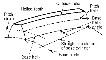 Tooth helix